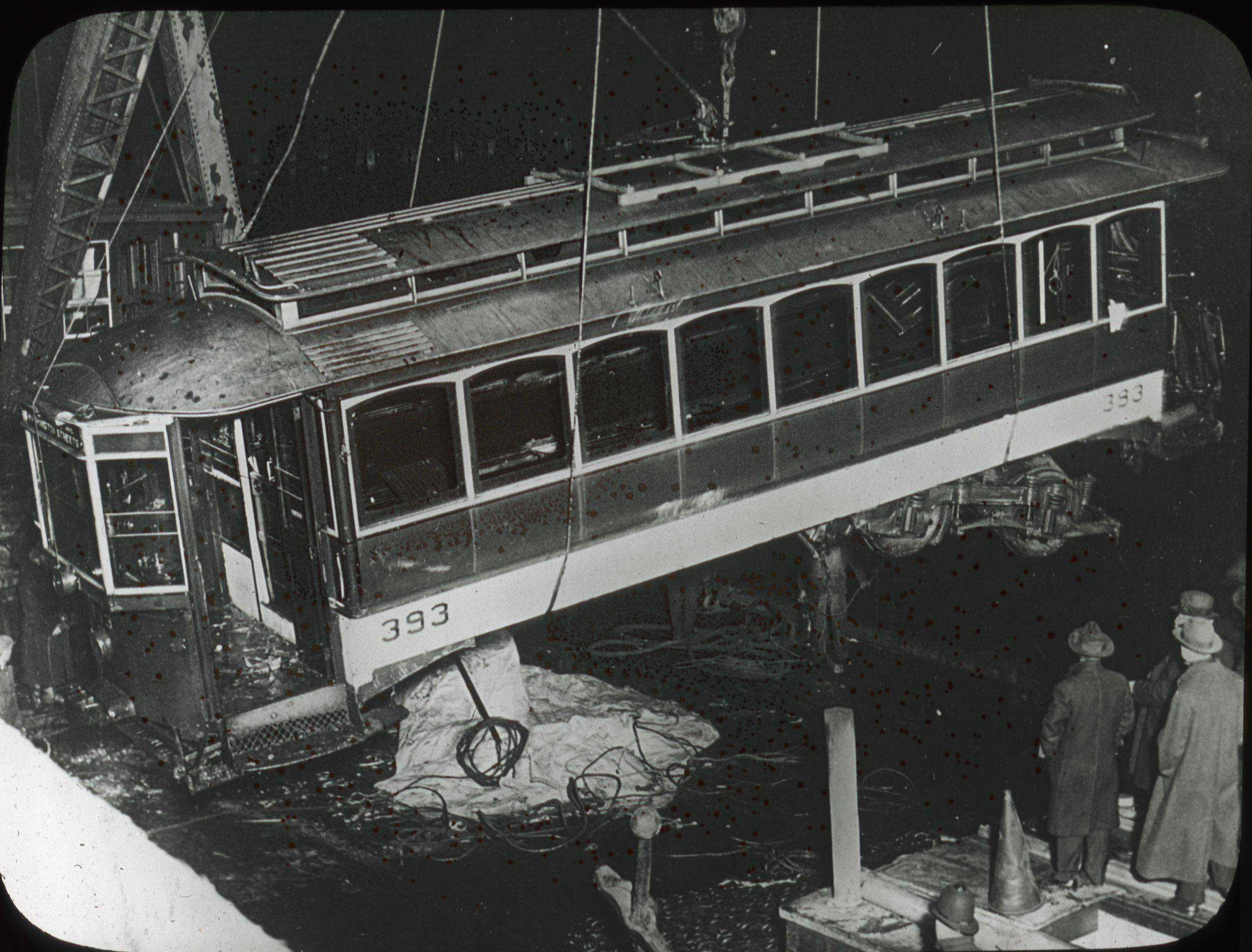 On November 8, 1916, Boston Elevated Railway streetcar #393 is raised from Fort Point Channel. The previous evening, the car plunged off the open Summer Street bridge, killing 46 riders.